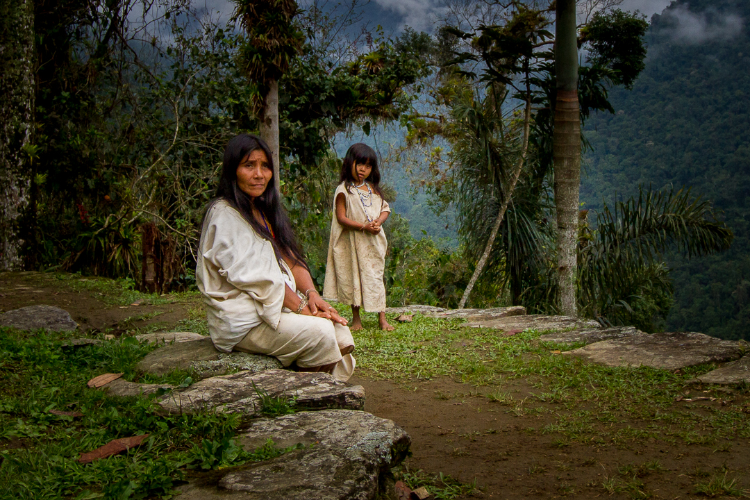 A portrait of a Koguis Tribeswoman and child on one of the terraces at Ciudad Perdida, Colombia.